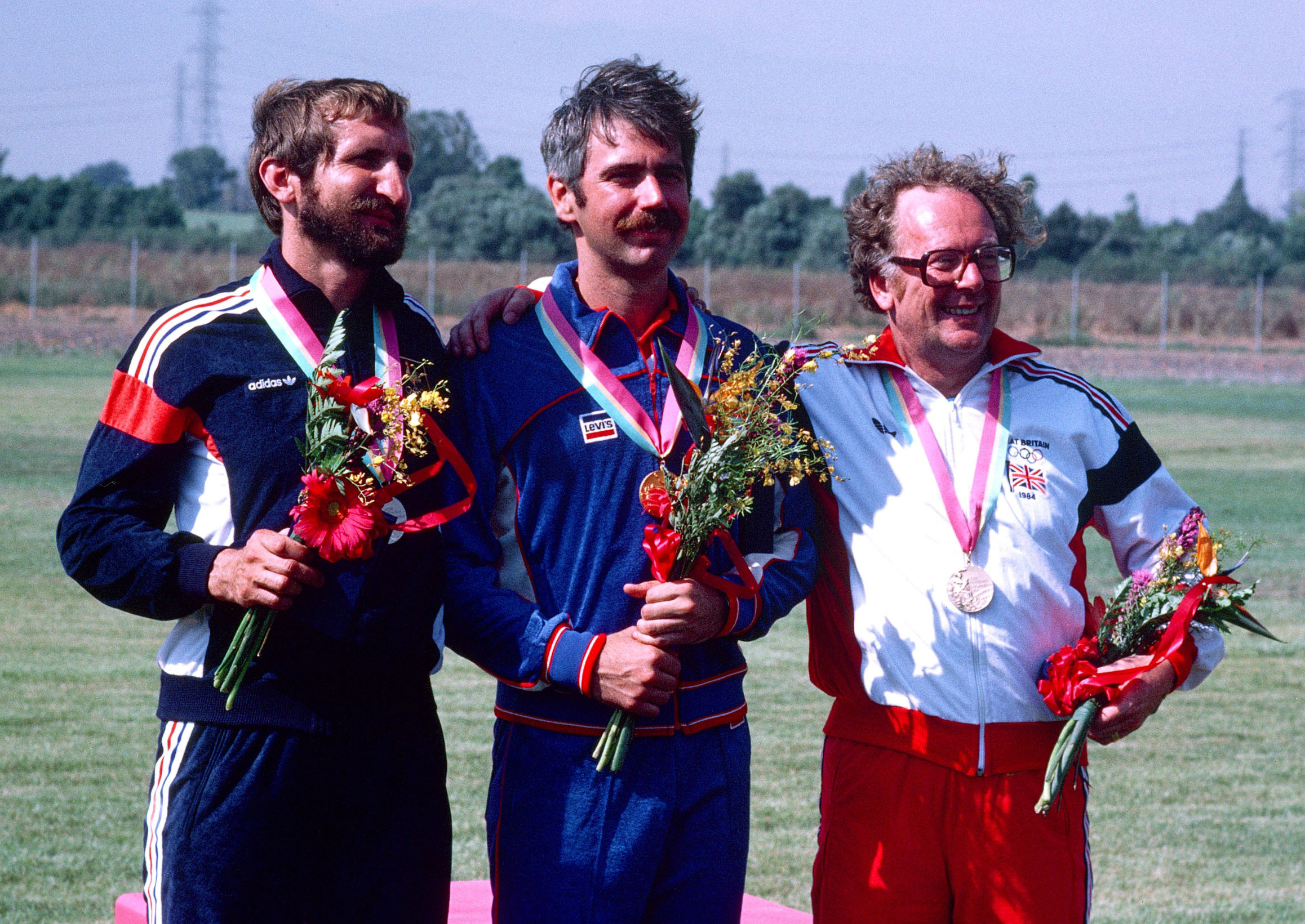 Army Captain Edward F. Etzel, center, from Morgantown, West Virginia, stands with the silver (Michel Bury) and bronze (Michael Sullivan) medalists after receiving a gold medal in the small-bore rifle English competition at the 1984 Summer Olympics. He scored 599 points out of a possible 600. (original text)